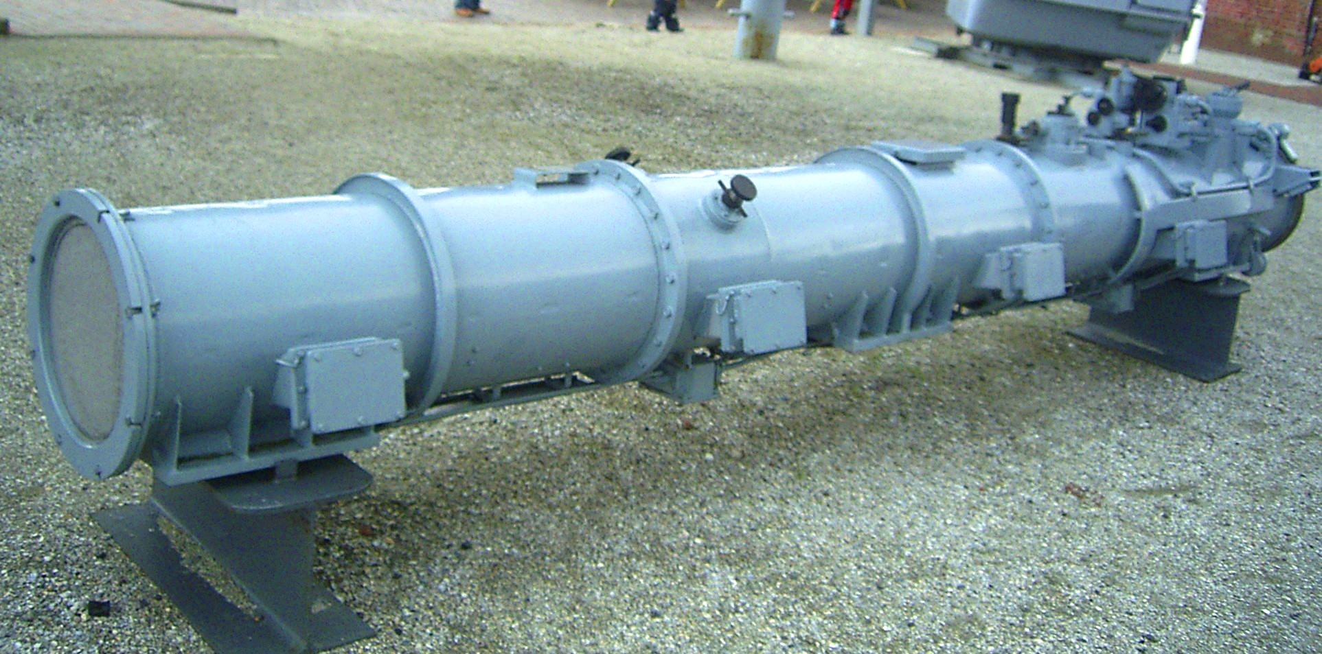 The soviet OTA-40 anti-submarine torpedoe tube calibre 40 cm (built under licence in the GDR). For Launching SÄT-40 UÄ anti sub Torpedoes with automatic active acoustic guidance.